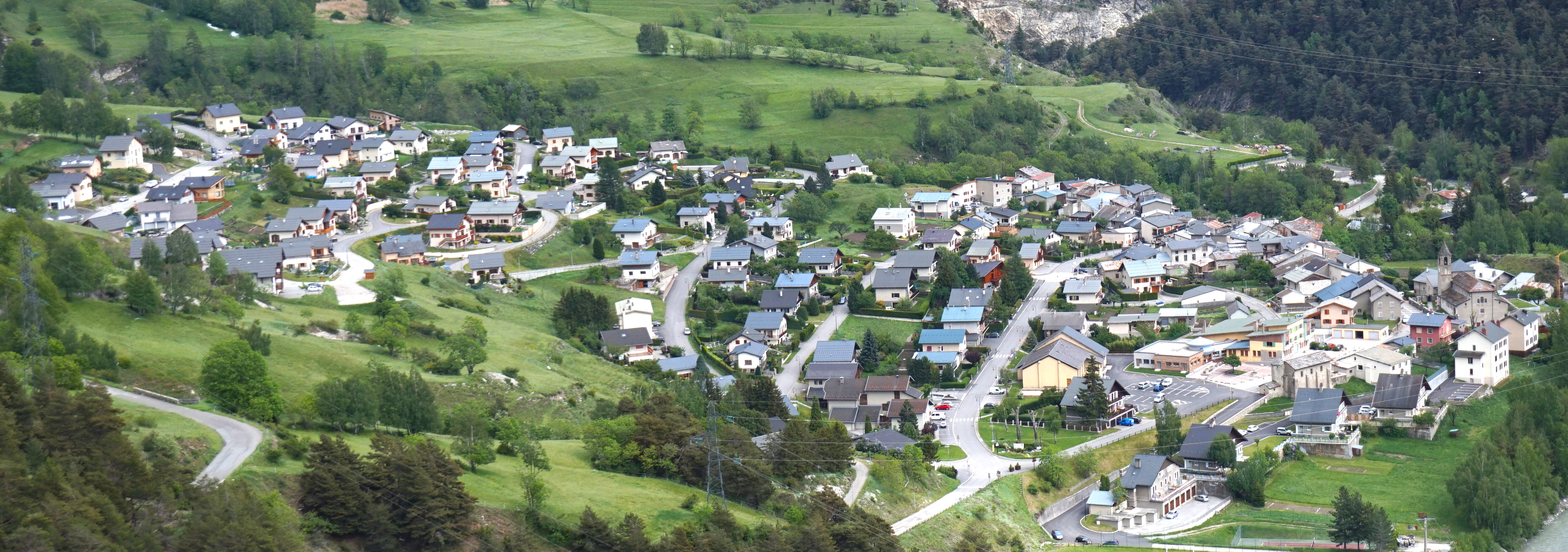 View of Avrieux, France.This photograph was taken with a Sony ILCE-5000